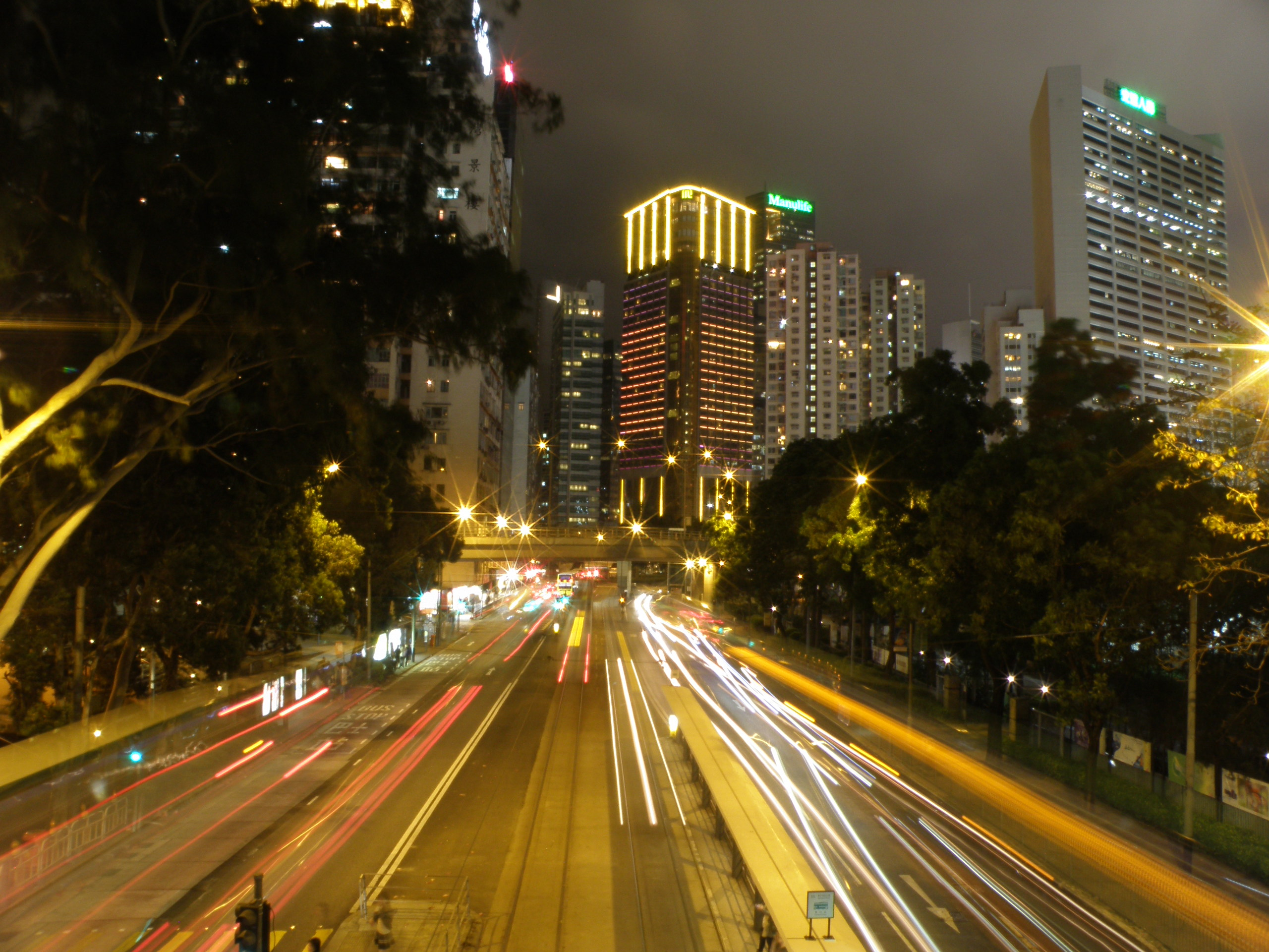 Causeway Road in Causeway Bay, Hong Kong.